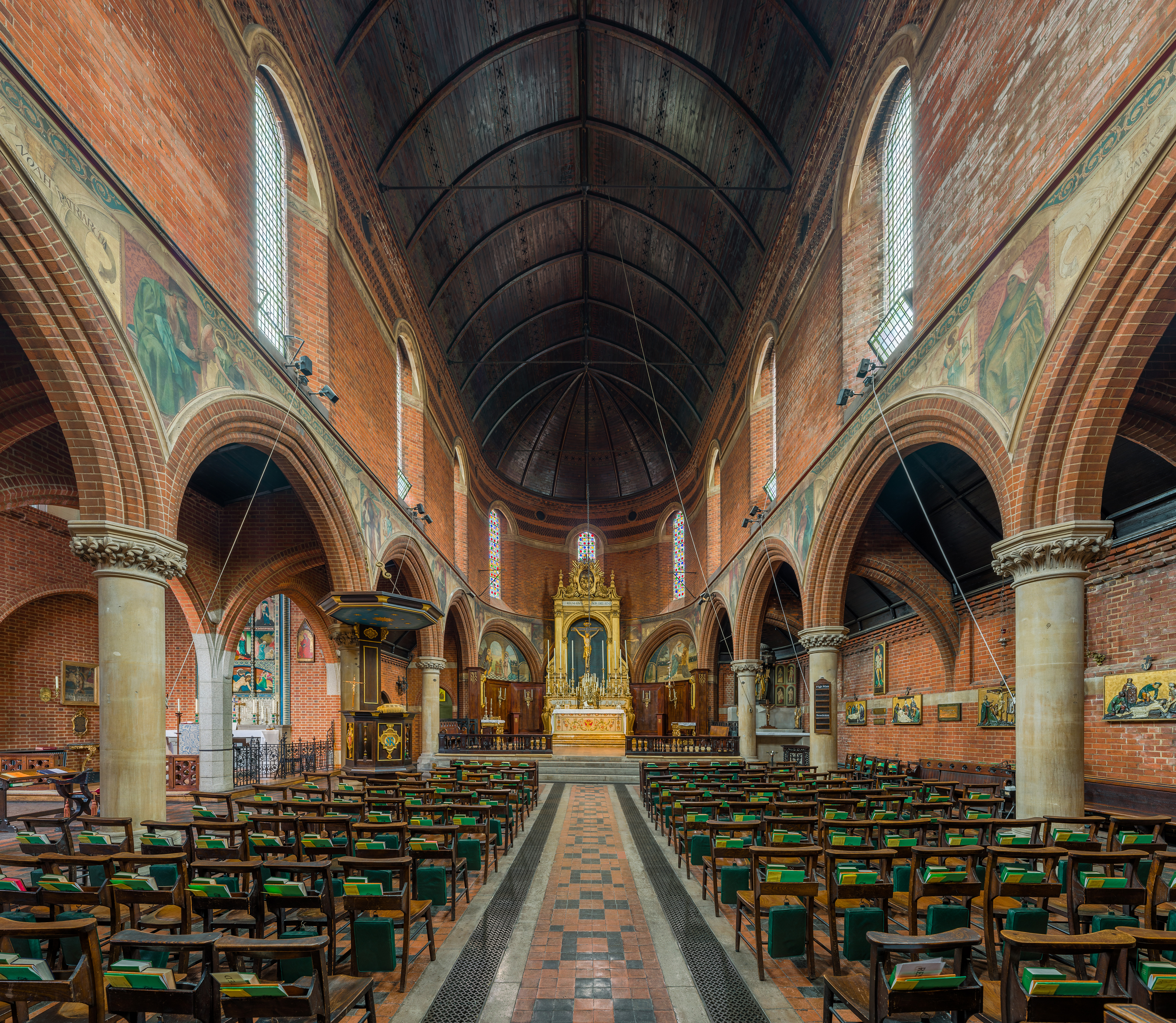 The interior of St Mary's, Bourne Street Church, London, UK, facing north east towards the altar. The Latin writing on the reredos reads 'et regni eius non erit finis' - 'Of his kingdom there shall be no end.' The spandrel paintings are possibly by Nathaniel Westlake.